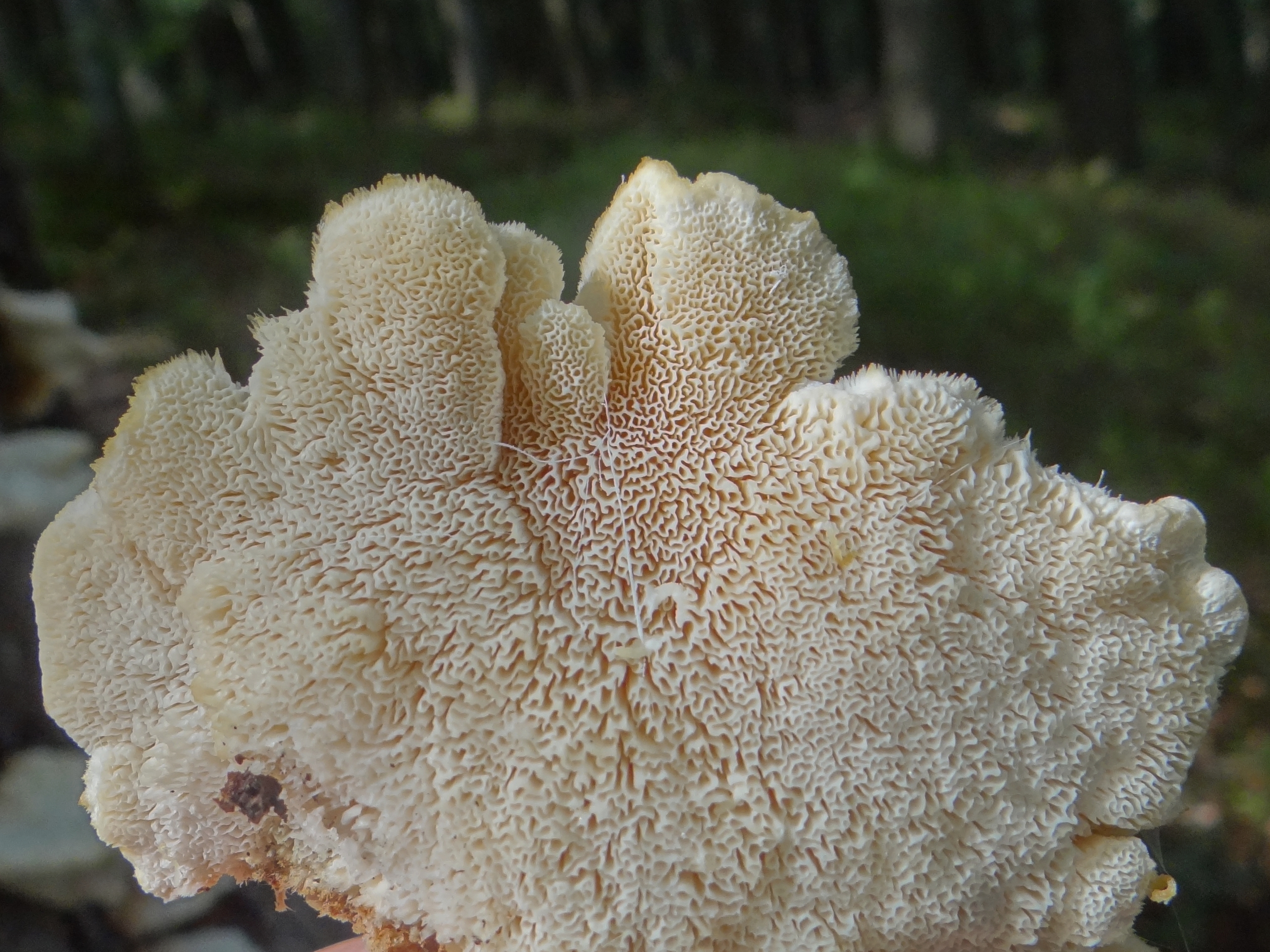 Climacocystis borealis (Position: Poland, Babia Góra, Górny Płaj, Klin)